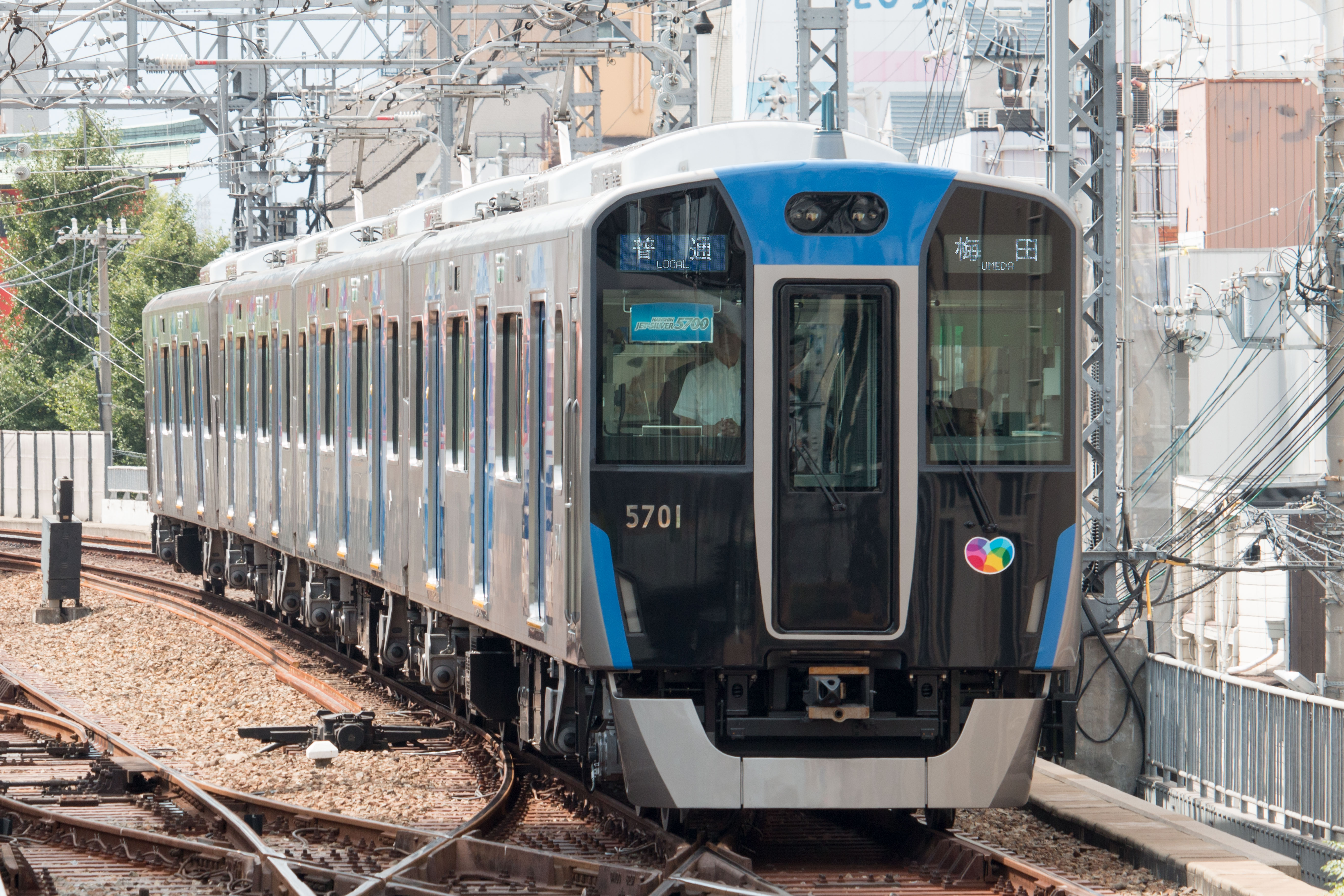 Hanshin Electric Railway 5700 series EMU set 5701 approaching Amagasaki Station on a "Local" service to Umeda